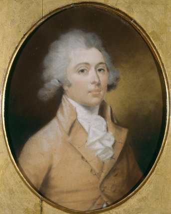 William John Chute M.P. by Emma Smith. Maybe 1800